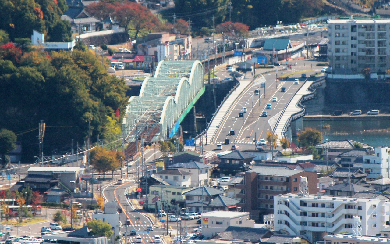 Inuyama Bridge from Mount Yagi